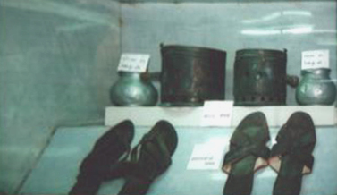 Photo taken by me at the Sardar Patel National Memorial, Ahmedabad. Rama's Arrow 00:07, 22 May 2006 (UTC)